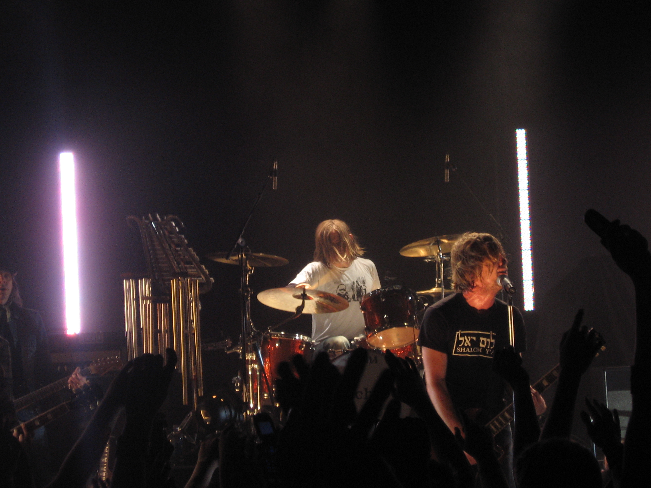 Photo Taken on April 29th 2006 at the Commodore Ballroom in Vancouver BC Canada at the "Nothing is Sound" Switchfoot Concert by Jedi canuck 16:43, 19 February 2007 (UTC)